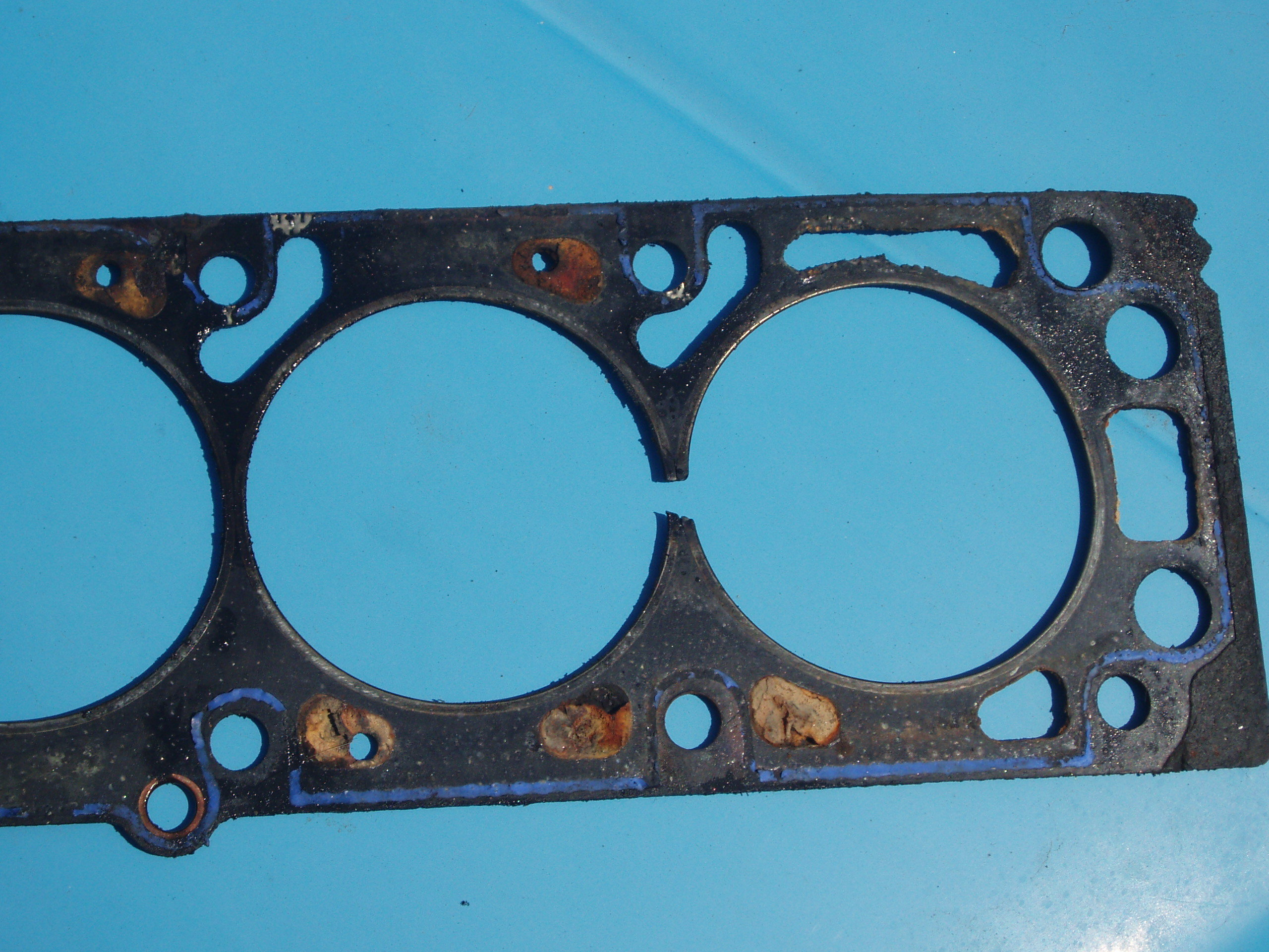 A damaged head gasket, leaking compression between 3rd and 4th cylinders. Removed from a 1989 Vauxhall Astra.